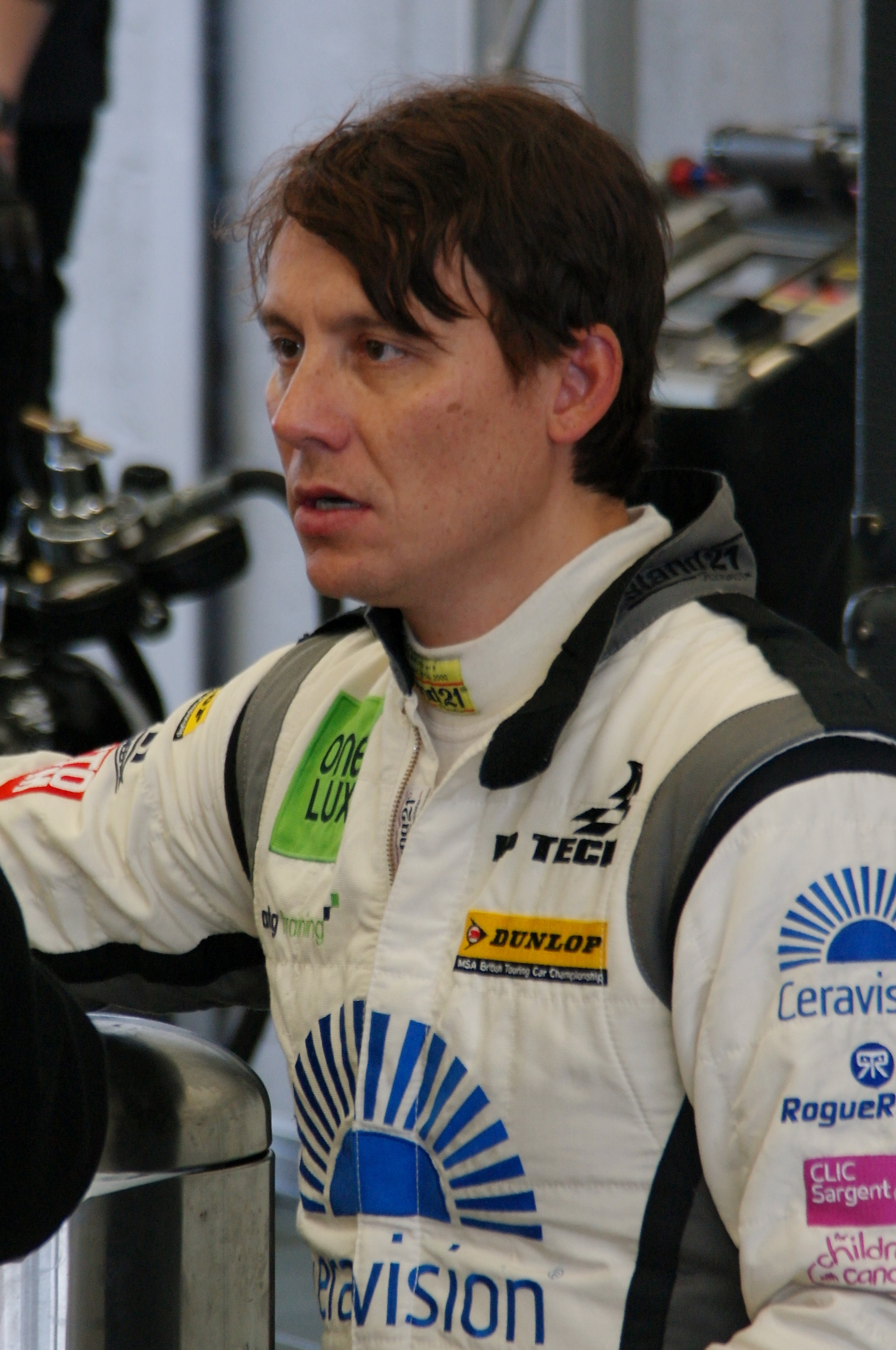 Andy Neate at the Silverstone round of the 2013 British Touring Car Championship season, Saturday 28th September.